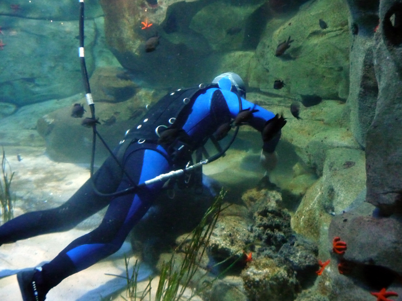 Underwater cleaner